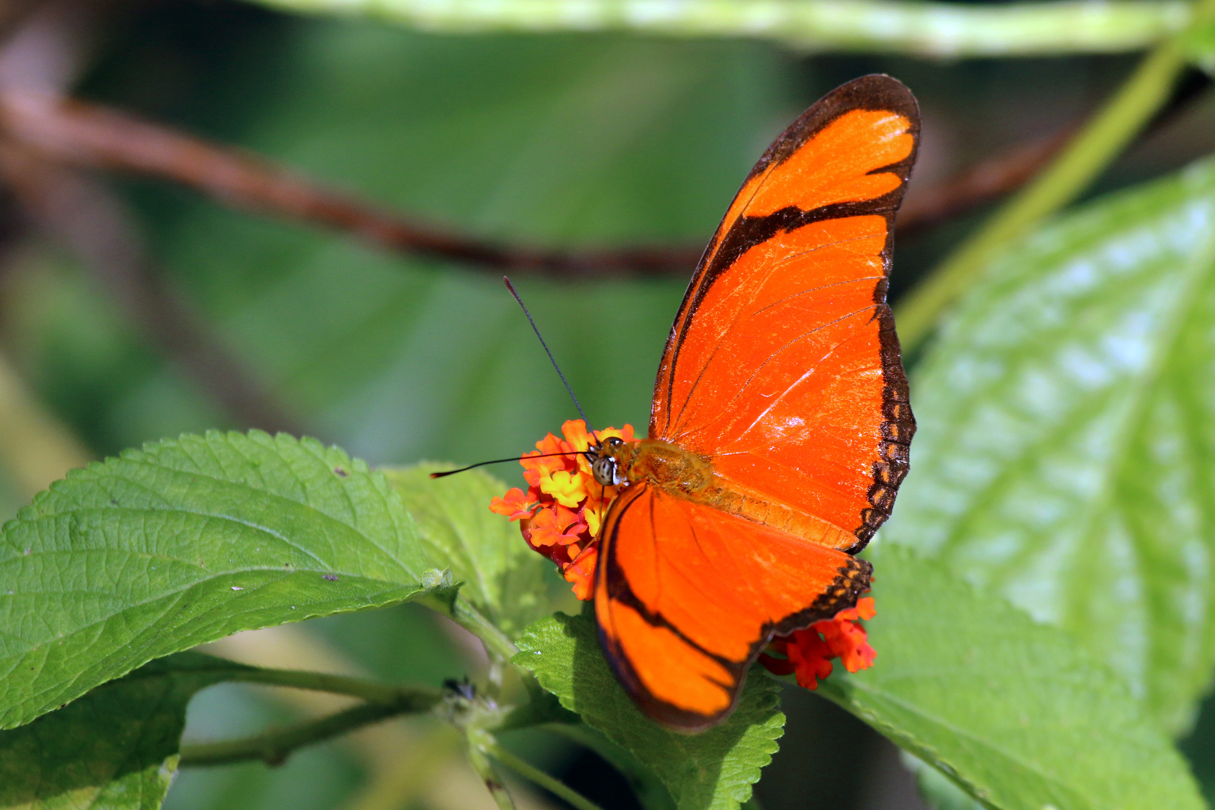 Julia butterfly (Dryas iulia iulia) male, Trinidad